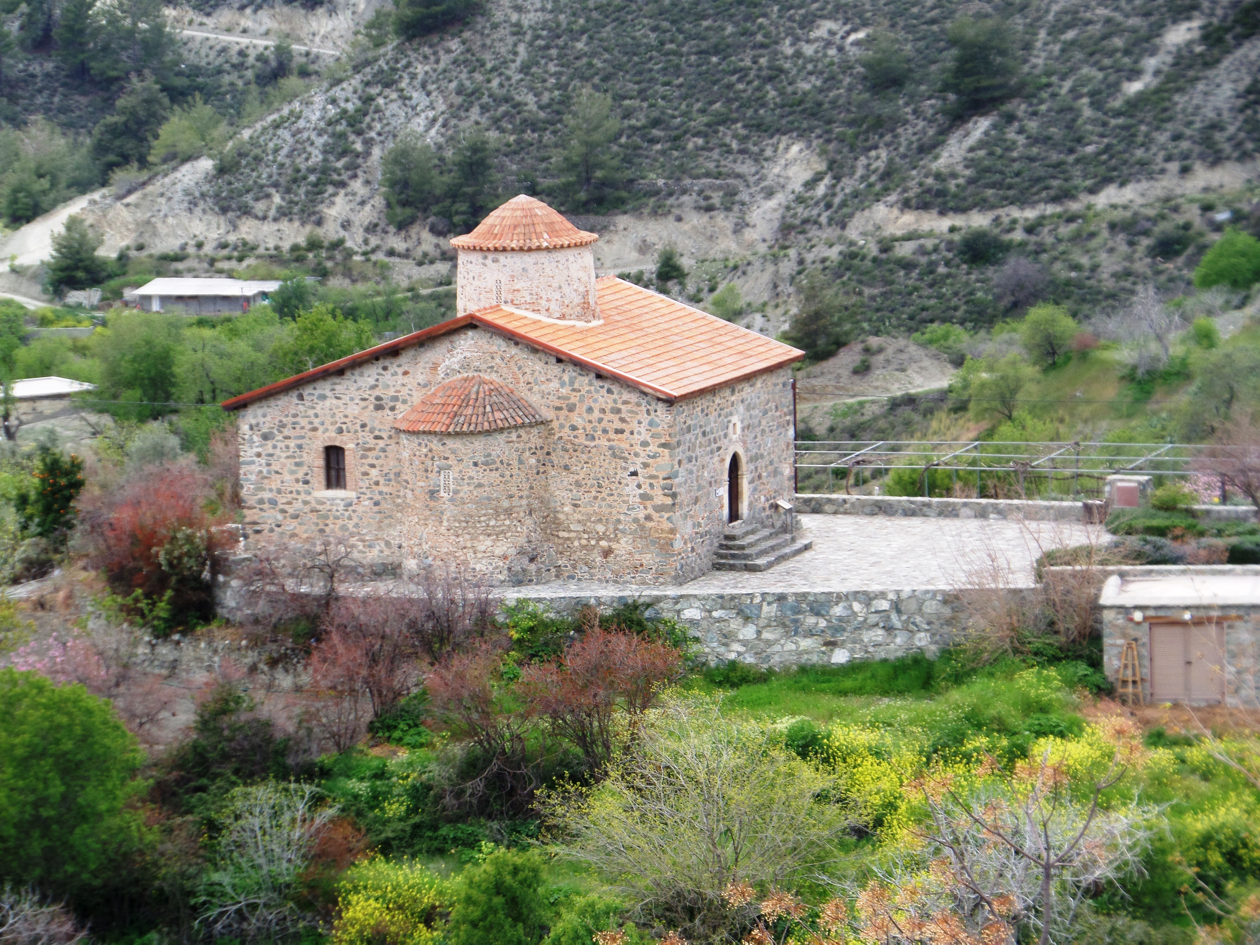 Holy Cross church at Pelendri, which is inculed in Painted Churches in the Troödos Region.